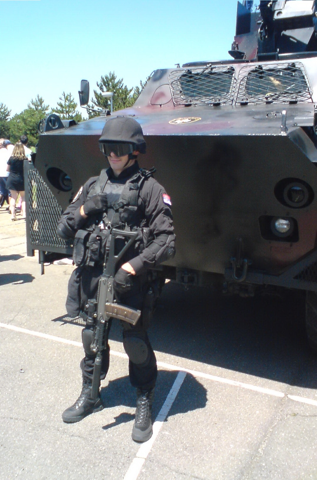 SAJ CT member